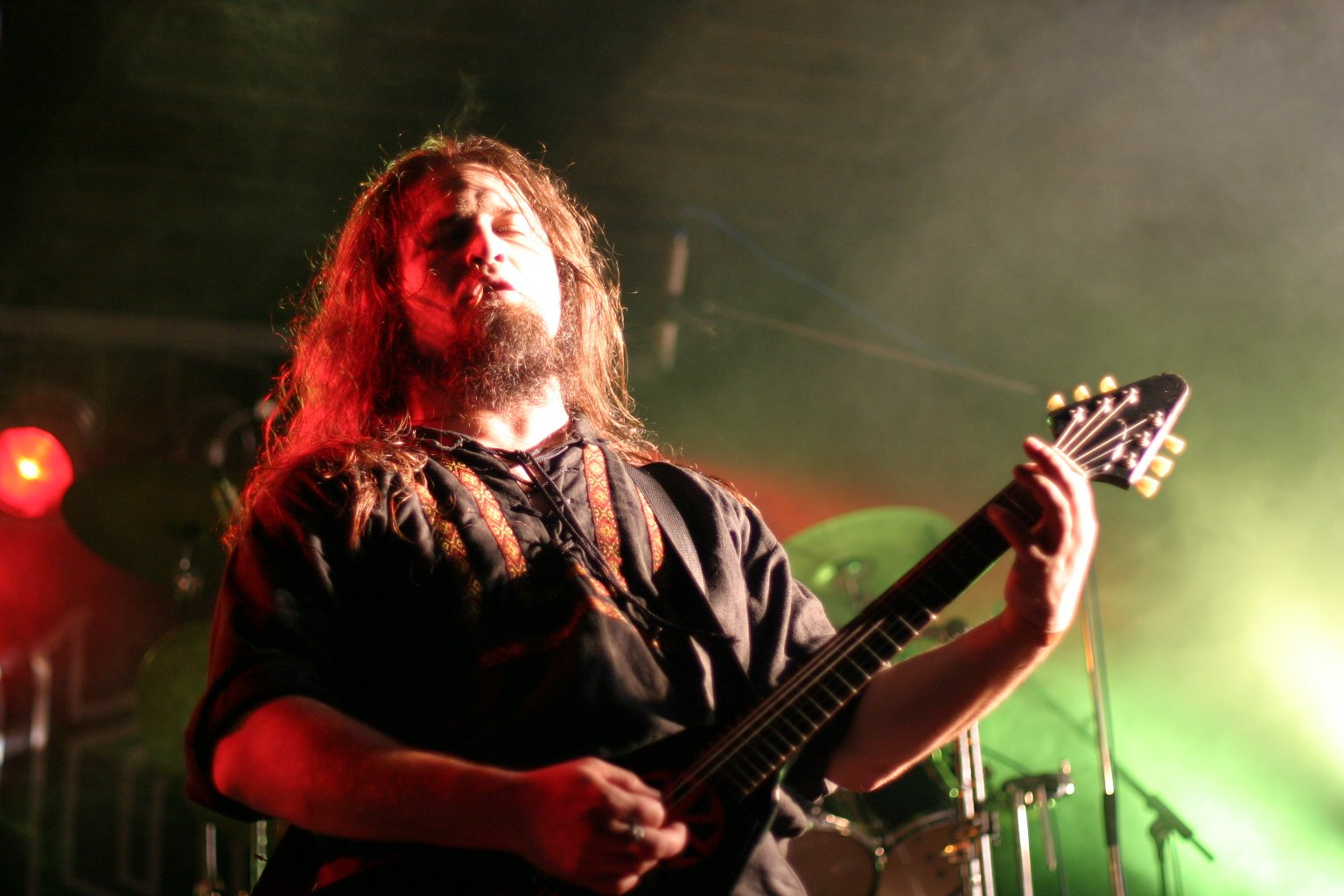 Sergei "Lazar", guitarist of the russian Pagan-Metal-Band Arkona, performing live at the Black Troll Festival (Germany) in 2010.